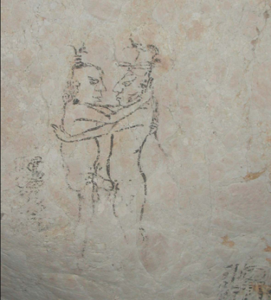 Pederastic rite